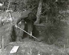 Archaeologist Frederick West, at work in the Teklanika Archeological District near Denali in Alaska.